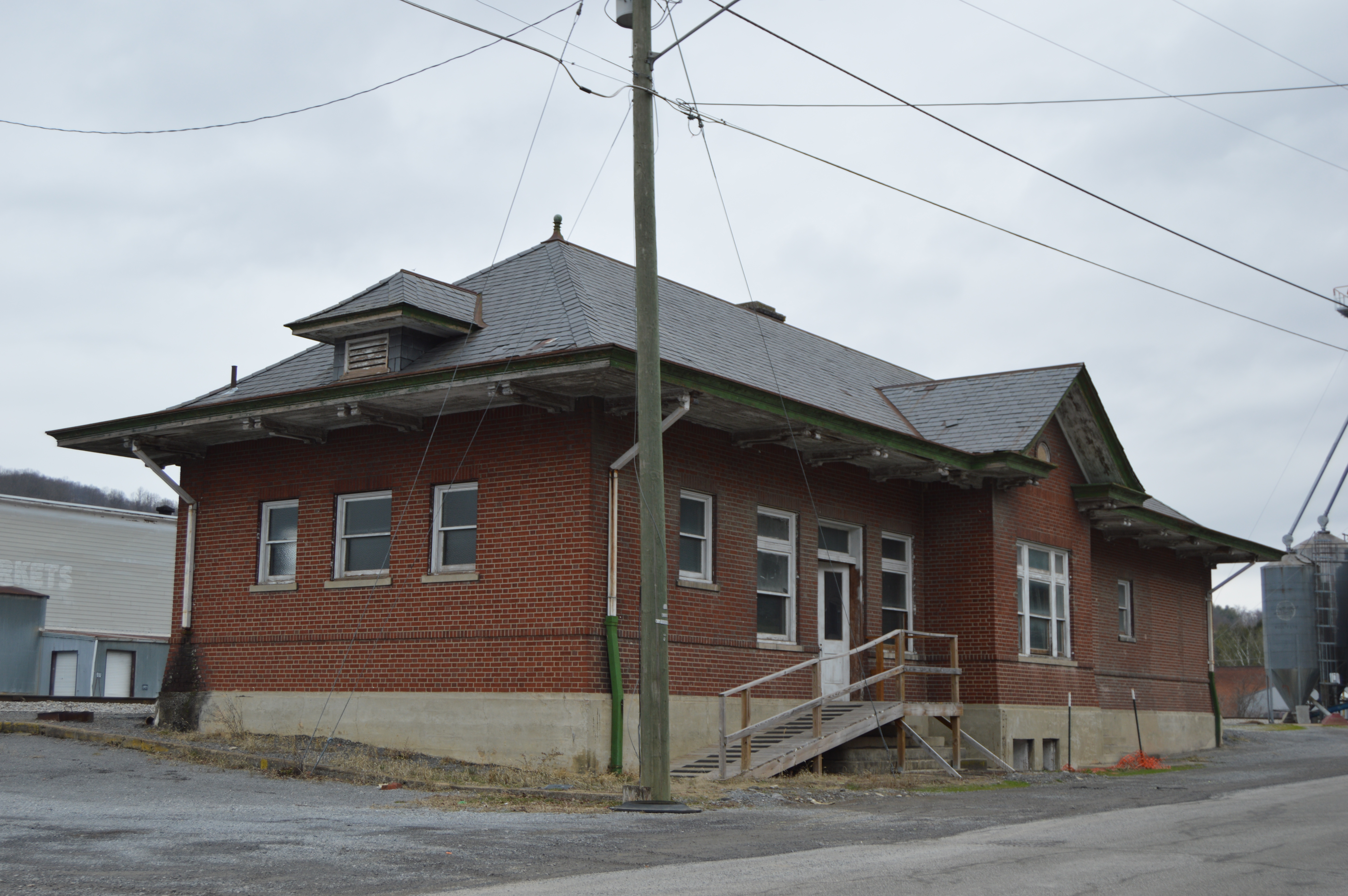 Front and western end of the Tazewell Depot, located at 135 Railroad Avenue in Tazewell, Virginia, United States. Built in 1928, it is listed on the National Register of Historic Places.